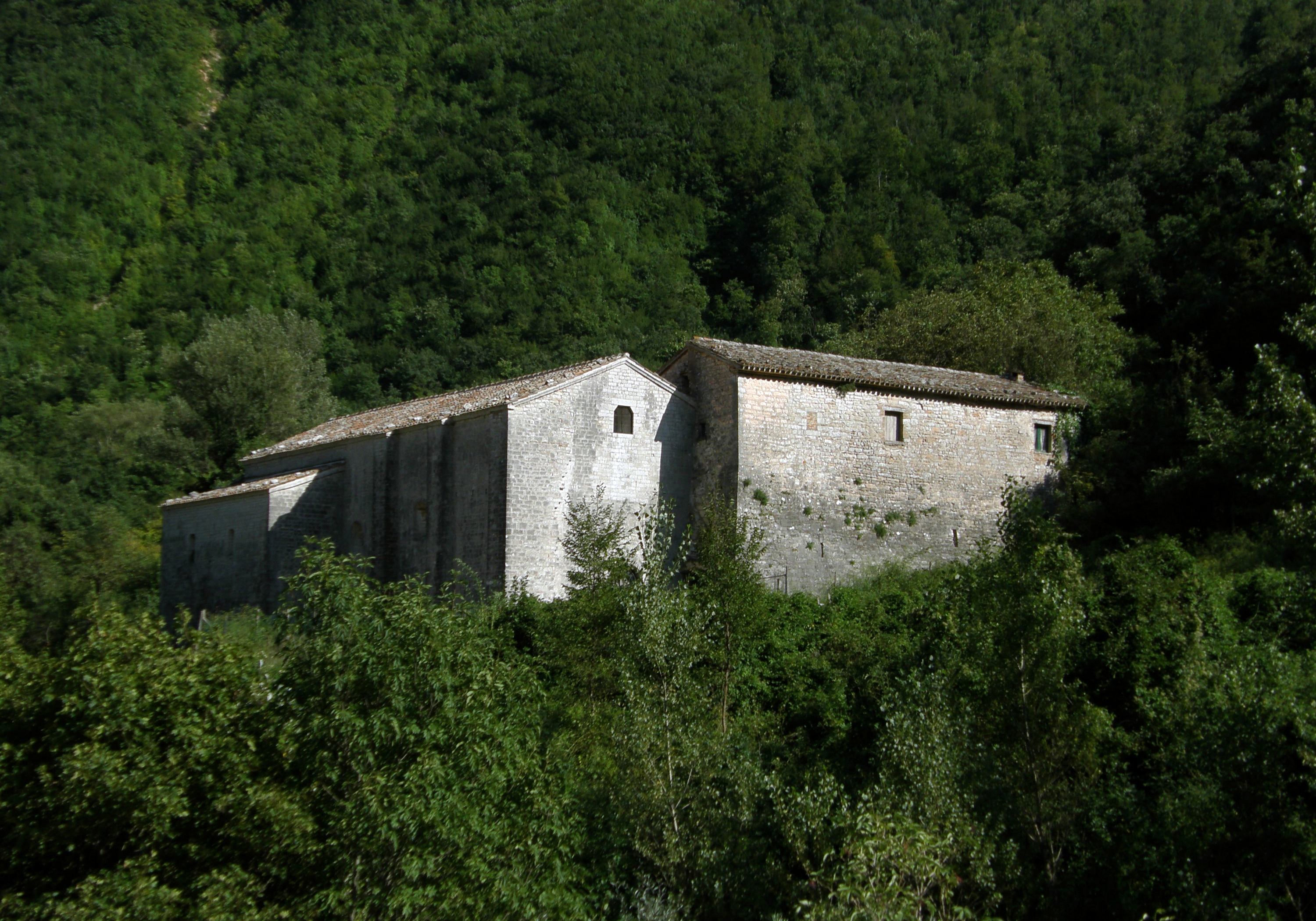 Scheggia, Italy - Monte Cucco, Abbazia di Santa Maria di Sitria